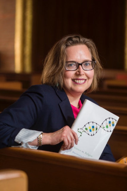 Elaine Howard Ecklund portrait